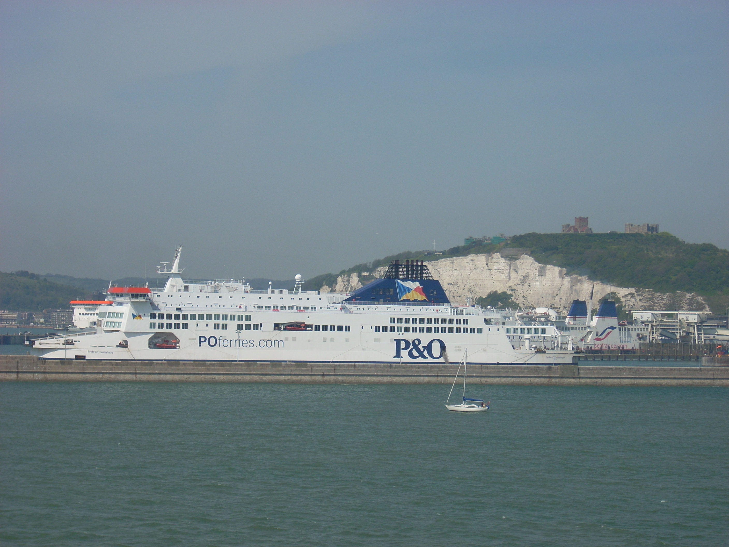 P&O Pride of Canterbury ferry in Dover